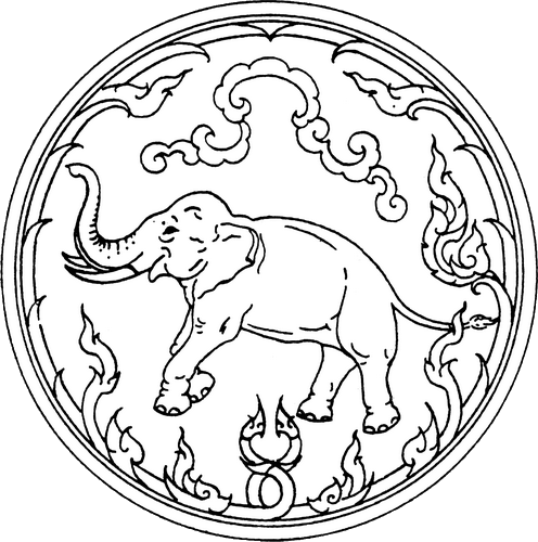 Provincial seal of Chiang Rai province.